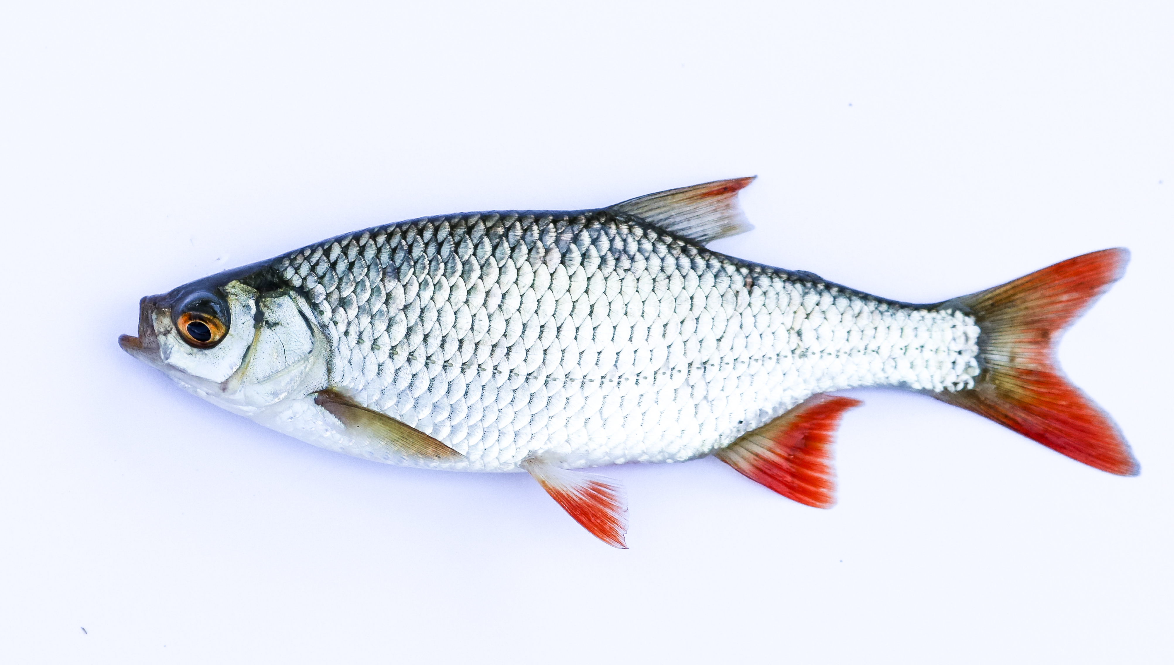 Rudd